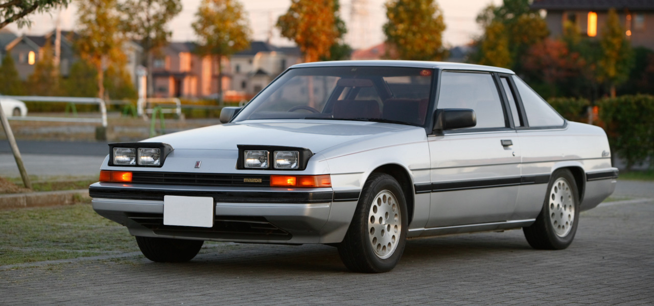 Mazda Cosmo, third generation ( HB ).